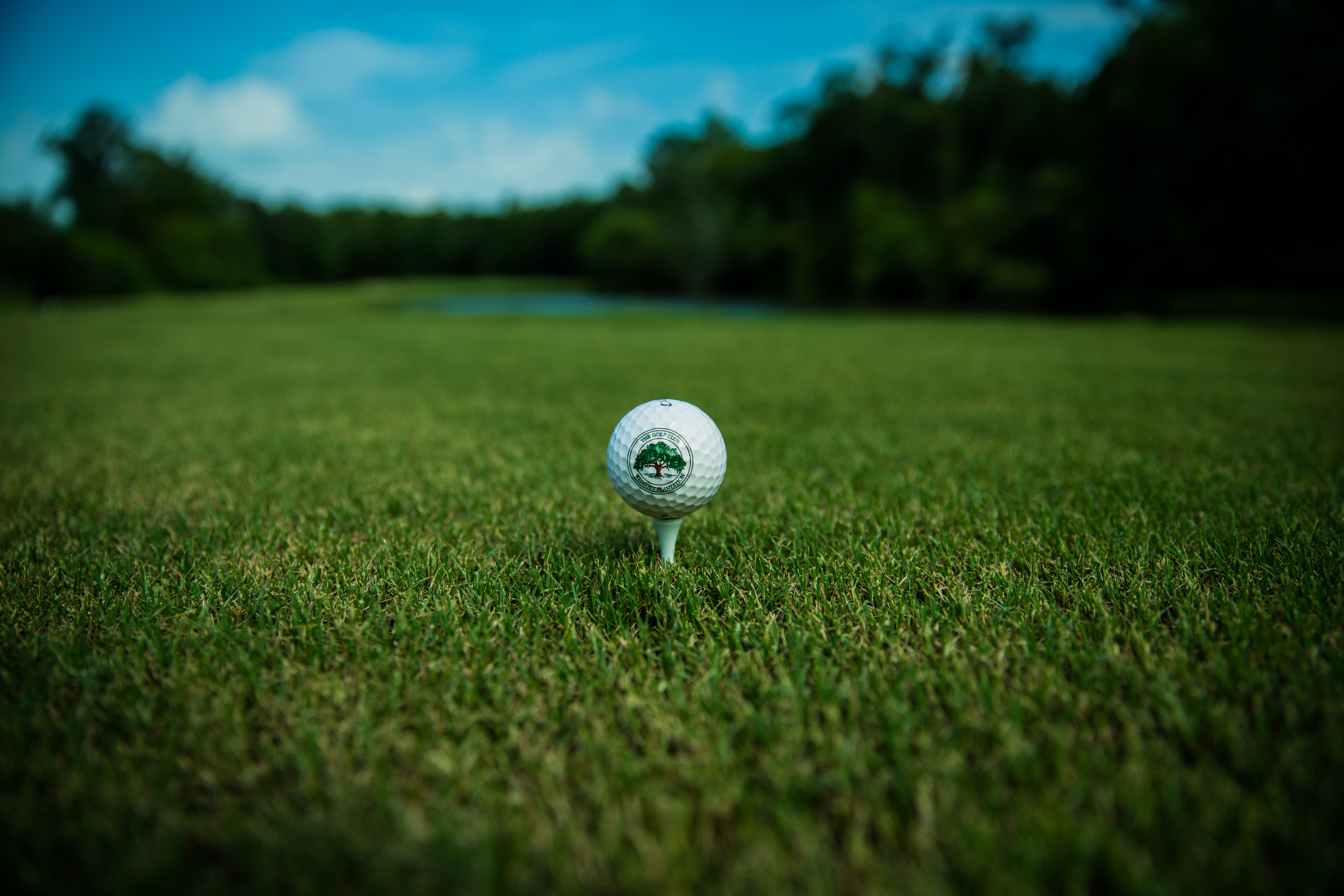 The Golf Club at Wescott Plantation, North Charleston's premier golf facility was developed keeping the richest traditions of Lowcountry golf. The 27-hole course was designed by Dr. Michael Hurdzan with an attempt to capture the old traditional flavor of low flowing earthworks, classic bunkering, and each hole separated and framed by the vegetation. The routing of the golf course, combined with the abundant trees provides a sense of isolation in that you rarely ever see another golf hole other than the one you are playing. Golfers can choose from at least five tees on each hole, depending on their ability, so that they can truly enjoy their golf at Wescott Plantation. Photo by Ryan Johnson